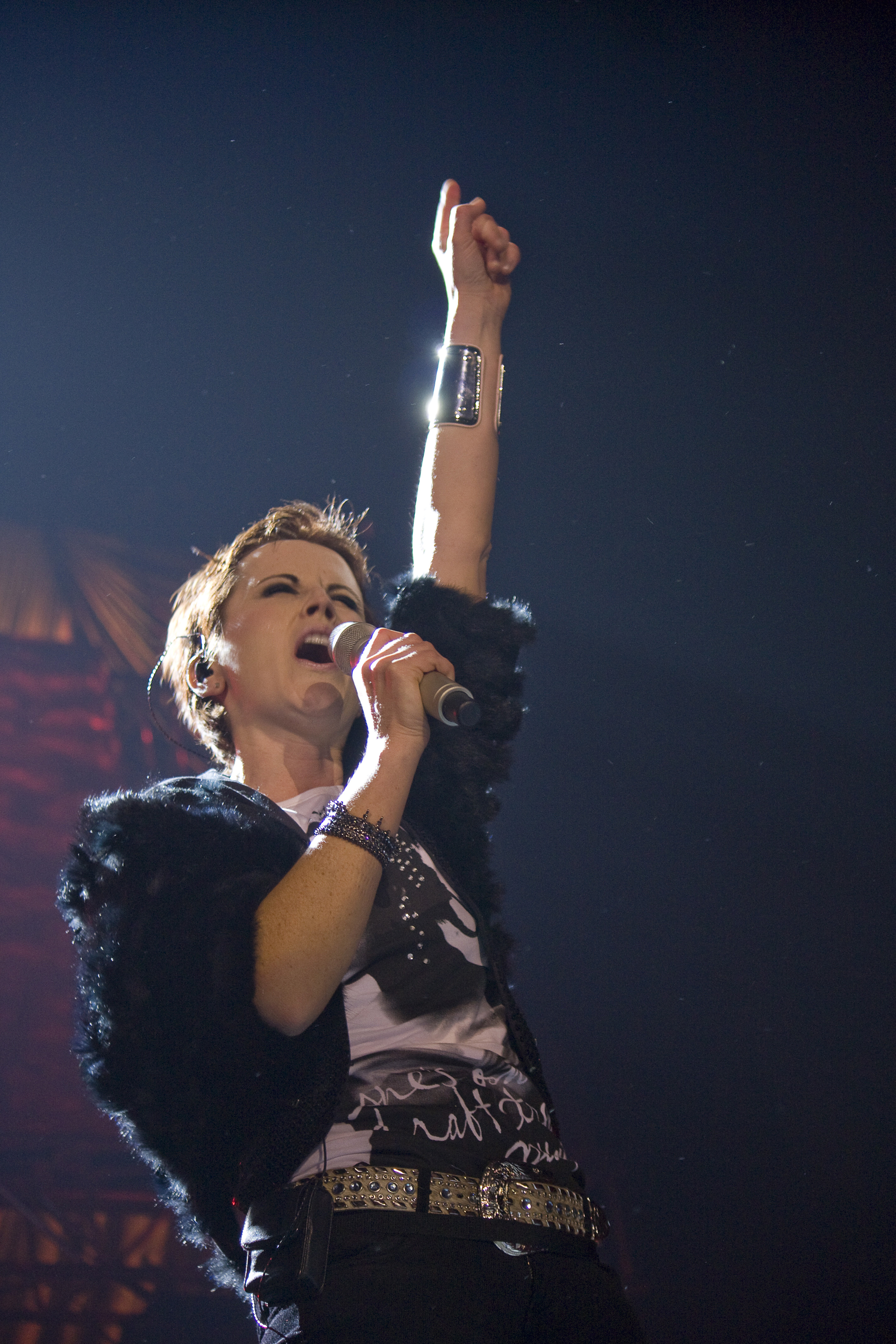 The Cranberries live in Barcelona 2010-03-13